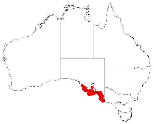 Acacia leiophylla Occurrence data from Australasia Virtual Herbarium downloaded from on 8 December 2018